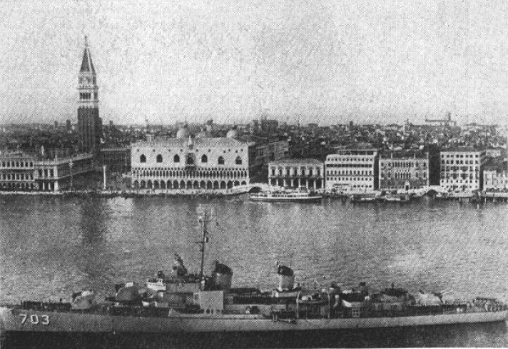 The U.S. Navy destroyer USS Wallace L. Lind (DD-703) at Venice, Italy. Wallace L. Lind was deployed to the Mediterranean Sea from 7 September 1949 to 26 January 1950.